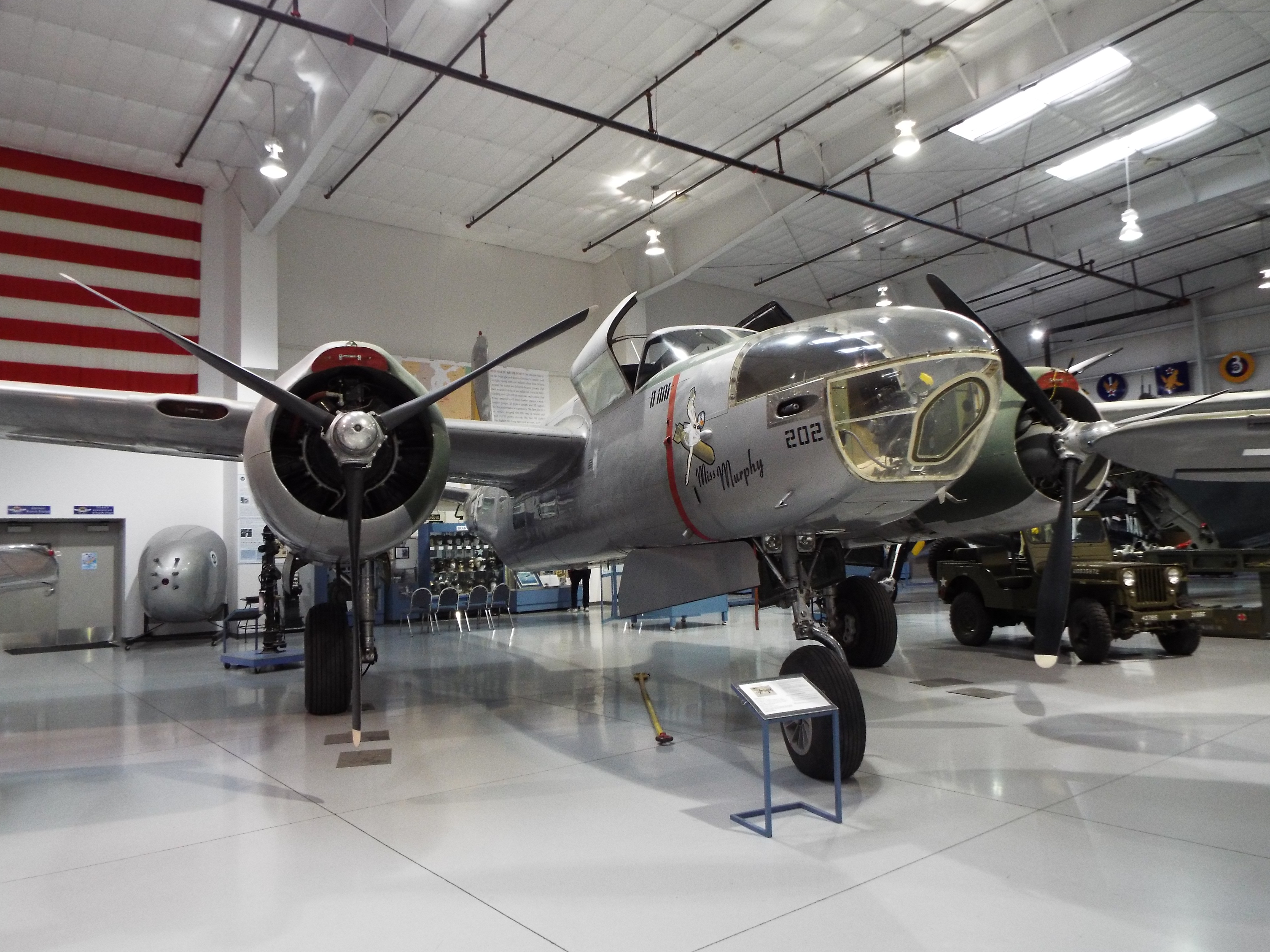 Mesa-Arizona Commemorative Air Force Museum-Douglas A-26 Invader